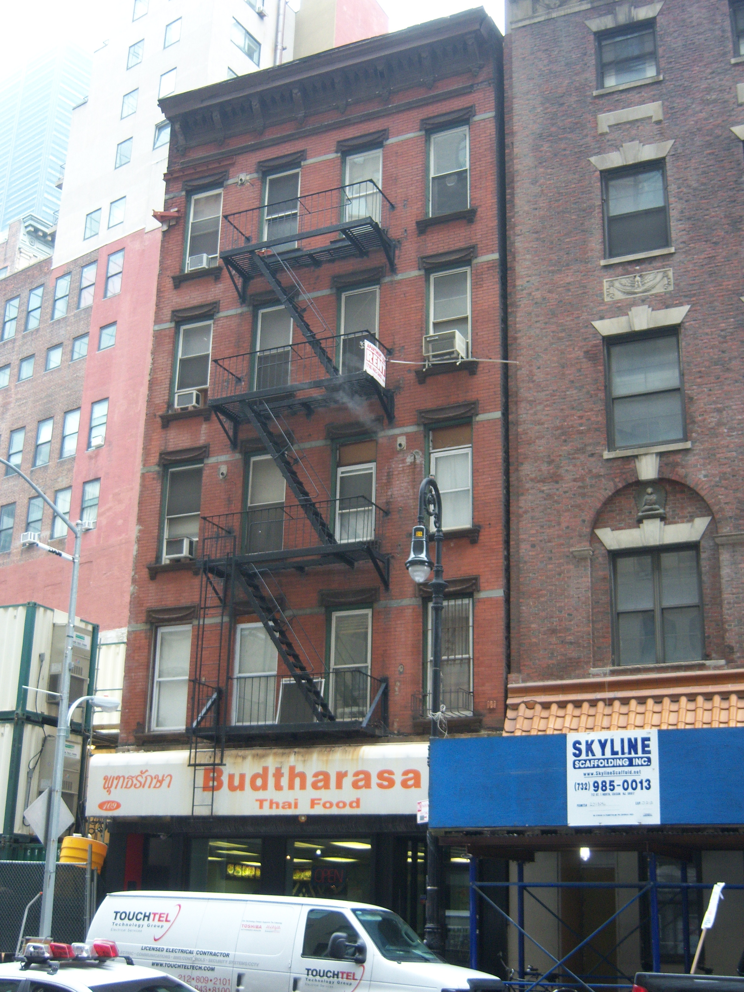 109 Washington Street, constructed in 1885 Image c. 2012.